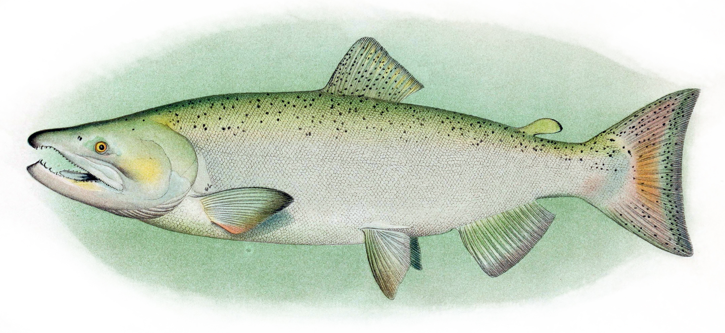 Chinook Salmon, Adult Male